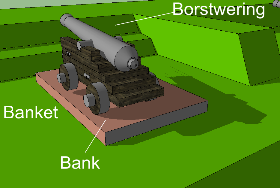 Banket borstwering bank, parts of a fortified citywal